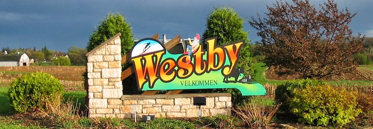 This is Westby's sign on the city limits.